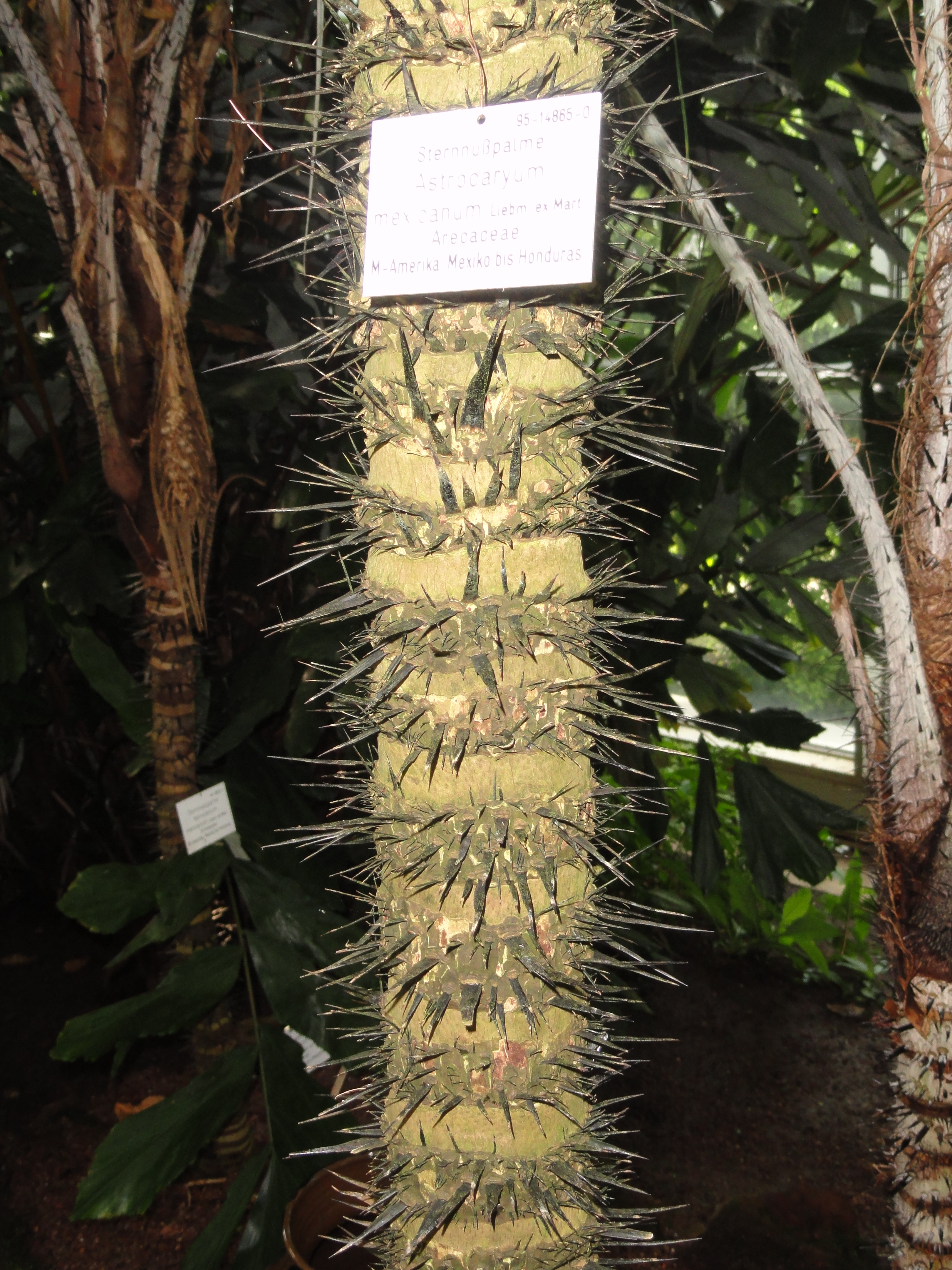 Botanical specimen in the Palmengarten, Frankfurt am Main, Germany.